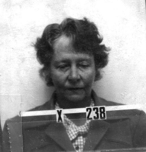 Dorothy McKibbin's Los Alamos ID Badge. Cropped version of File:Dorothy McKibbin Los Alamos ID Badge.jpg